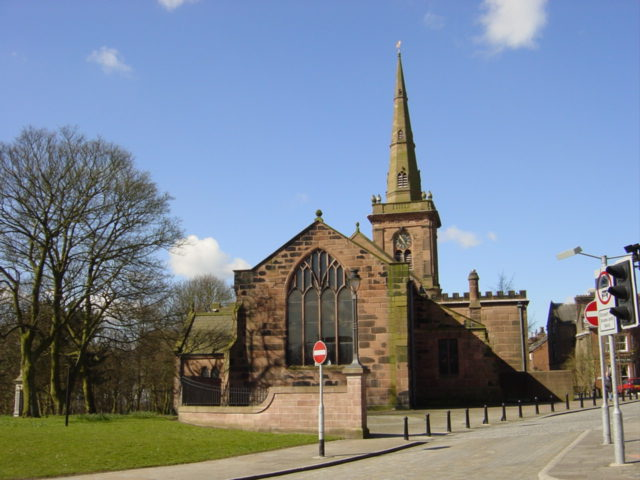 St Mary's parish church, Prescot, Merseyside, seen from the east